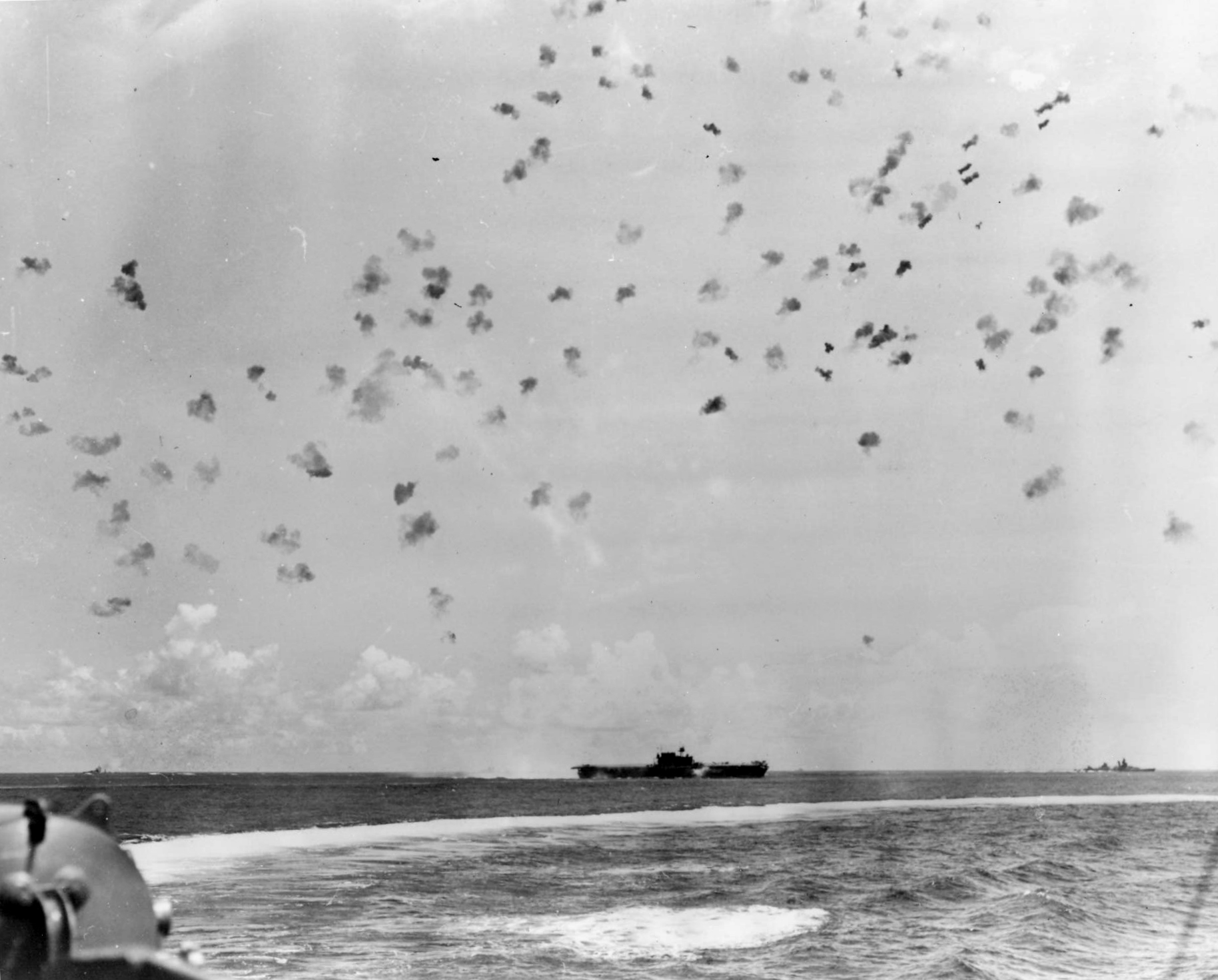 Anti-aircraft fire over the U.S. Navy aircraft carrier USS Enterprise (CV-6) during the Battle of the Santa Cruz Islands, in 1942.